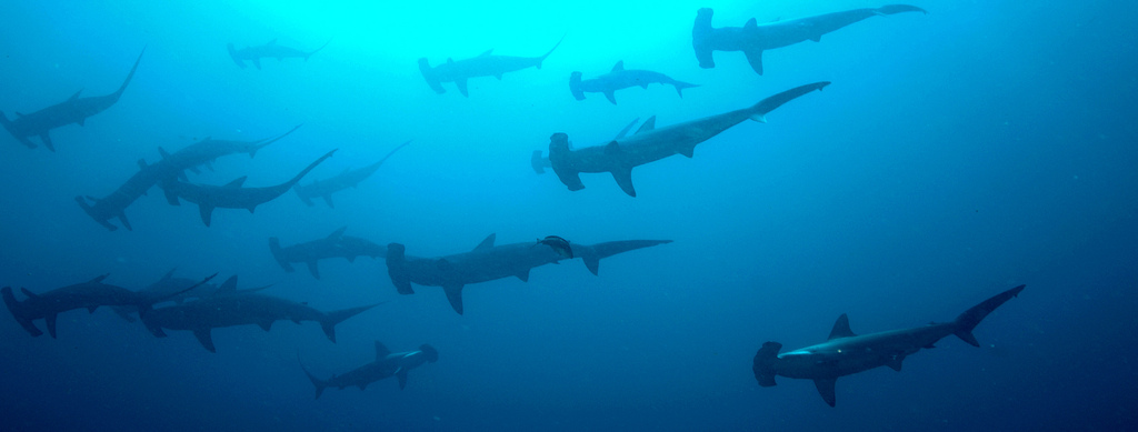 Scalloped hammerhead sharks (Sphyrna lewini)